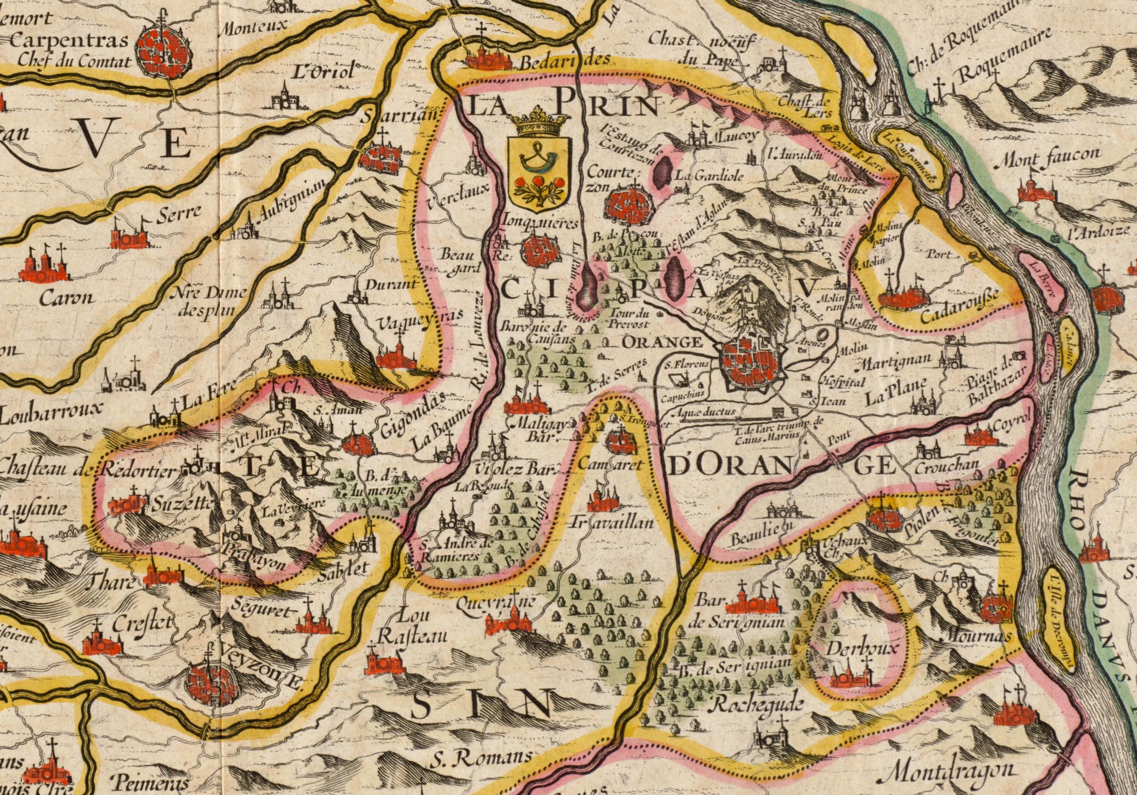 Territory of the Principality of Orange. Cropped from a Jan Jansson map from 1633 titled La Principauté d'Orange et comtat de Venaissin. On this map, the south is at the top and the north at the bottom, which explains why the Rhone River is on the right and the city of Carpentras on the left.